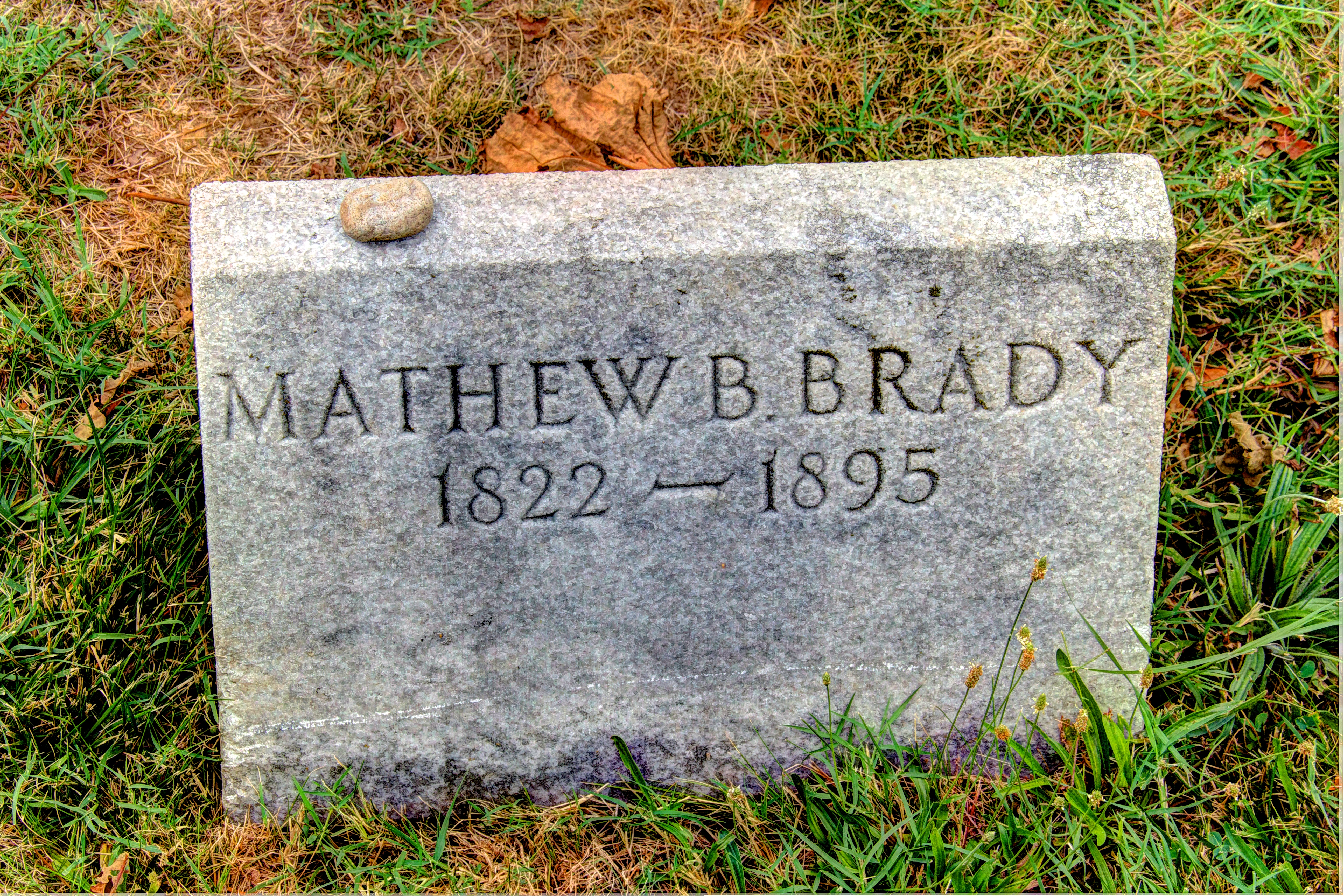 The grave of Mathew Brady, at the Congressional Cemetery, Washington D.C..